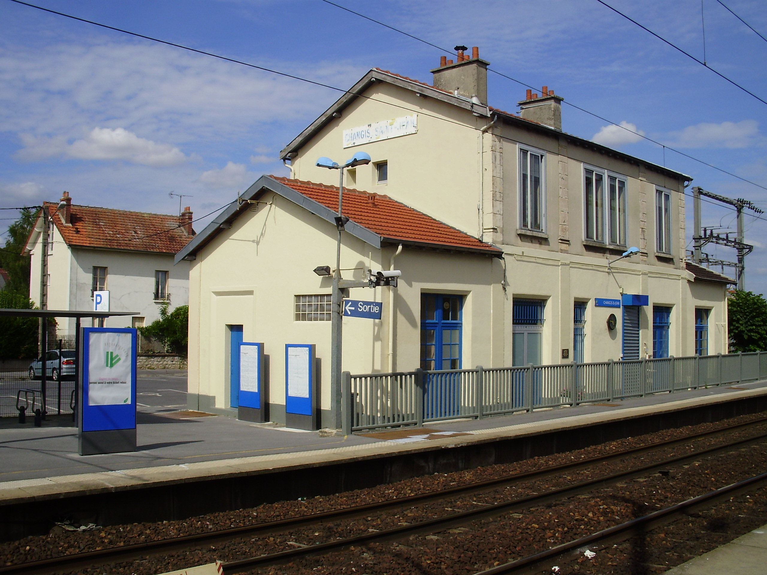 Changis - Saint-Jean station, in Changis-sur-Marne, Seine-et-Marne, France, seen from the platform to Paris